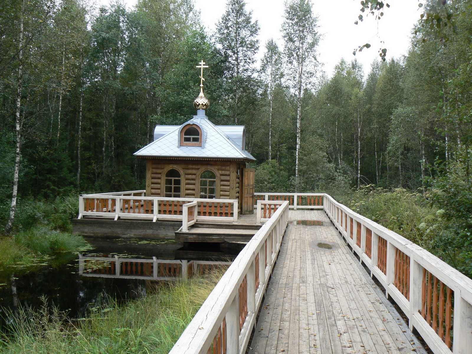 Source of the VolgaHrvatski: Izvor Volge